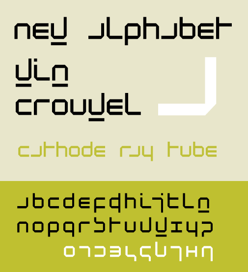 Specimen of the typeface New Alphabet, designed by Wim Crouwel.